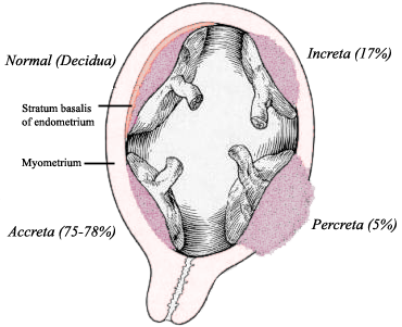 A diagram illustrating the different types of placenta accreta.